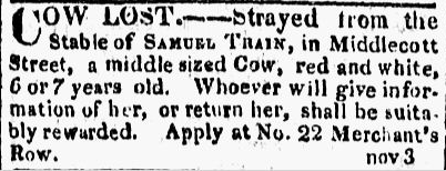 Newspaper item about lost cow, Middlecott St., Boston